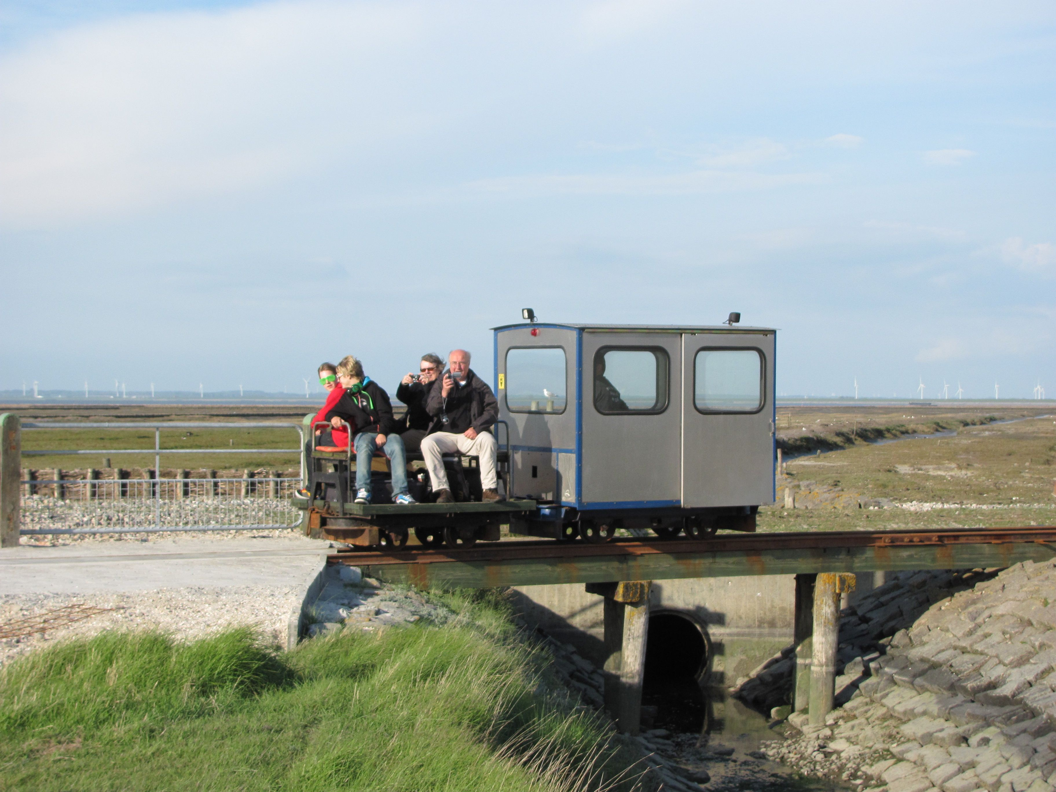 Narrow gauge railway Nordstrandischmoor: The only bridge in the system.